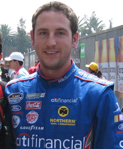 Erik Darnell posing with a fan at the 2008 NASCAR Nationwide Series event at Mexico City